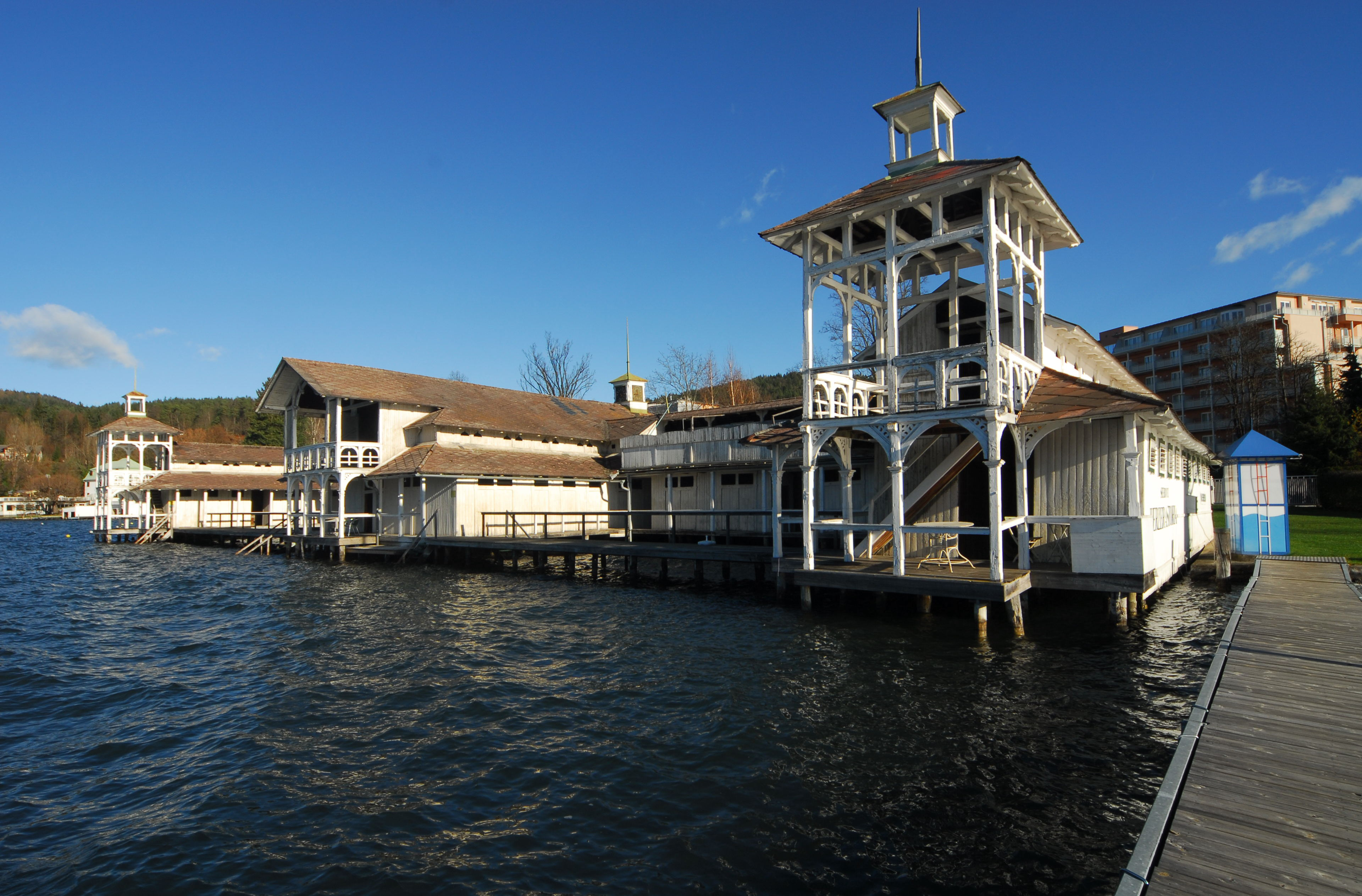 Bath establishment, 1895, architect Josef Victor Fuchs, Art Nouveau architecture, view from south-west, Wörthersee architecture, Werzer Strand #16, municipality Poertschach on the Lake Woerth, district Klagenfurt Land, Carinthia / Austria / EU